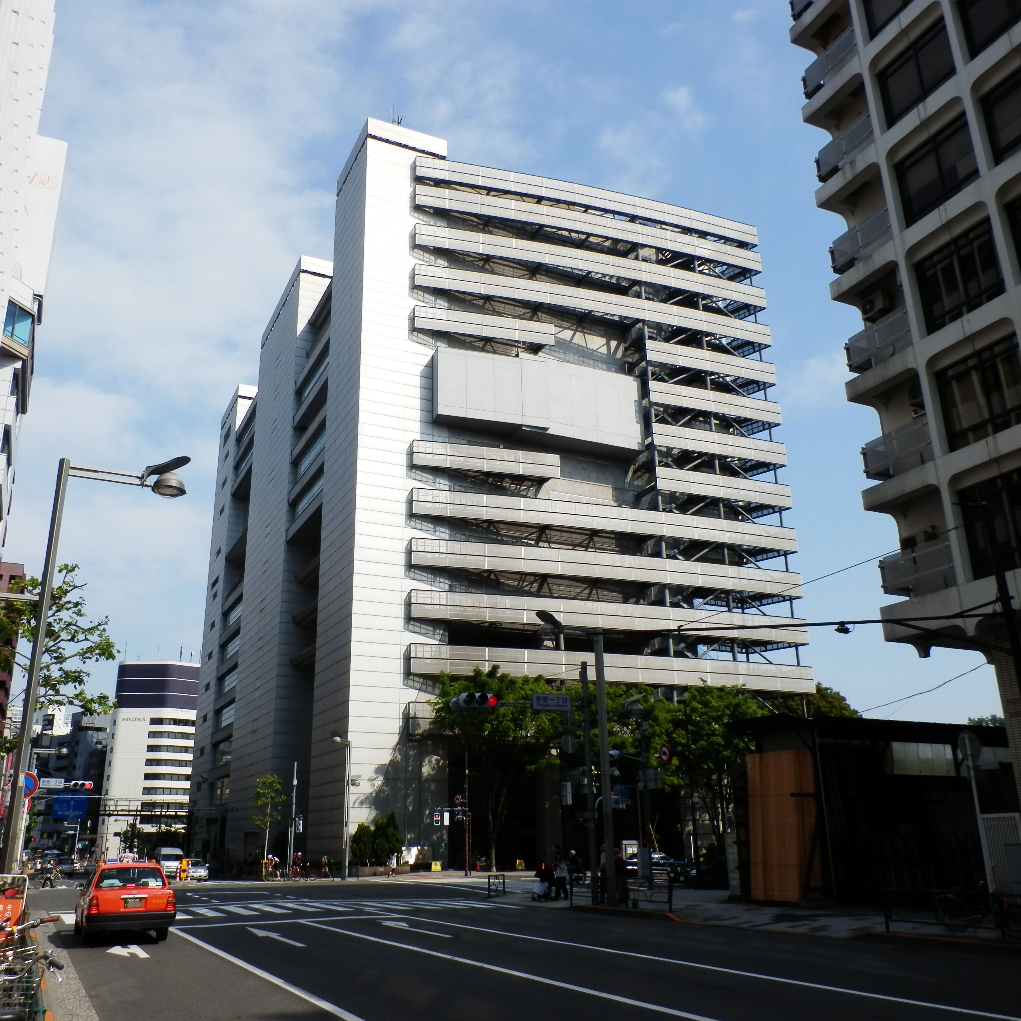 Yotsuya Kumin Hall (A facility of Shinjuku ward in Tokyo, Japan)